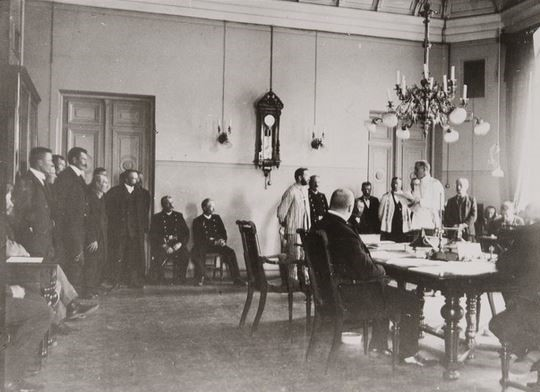 The Latvian Bolshevik Jānis Čoke (1878-1910) in court in Tampere, Finland, in July 1906. He was sentenced for life of three murders during the robbery of the Russian State Bank branch in Helsinki.